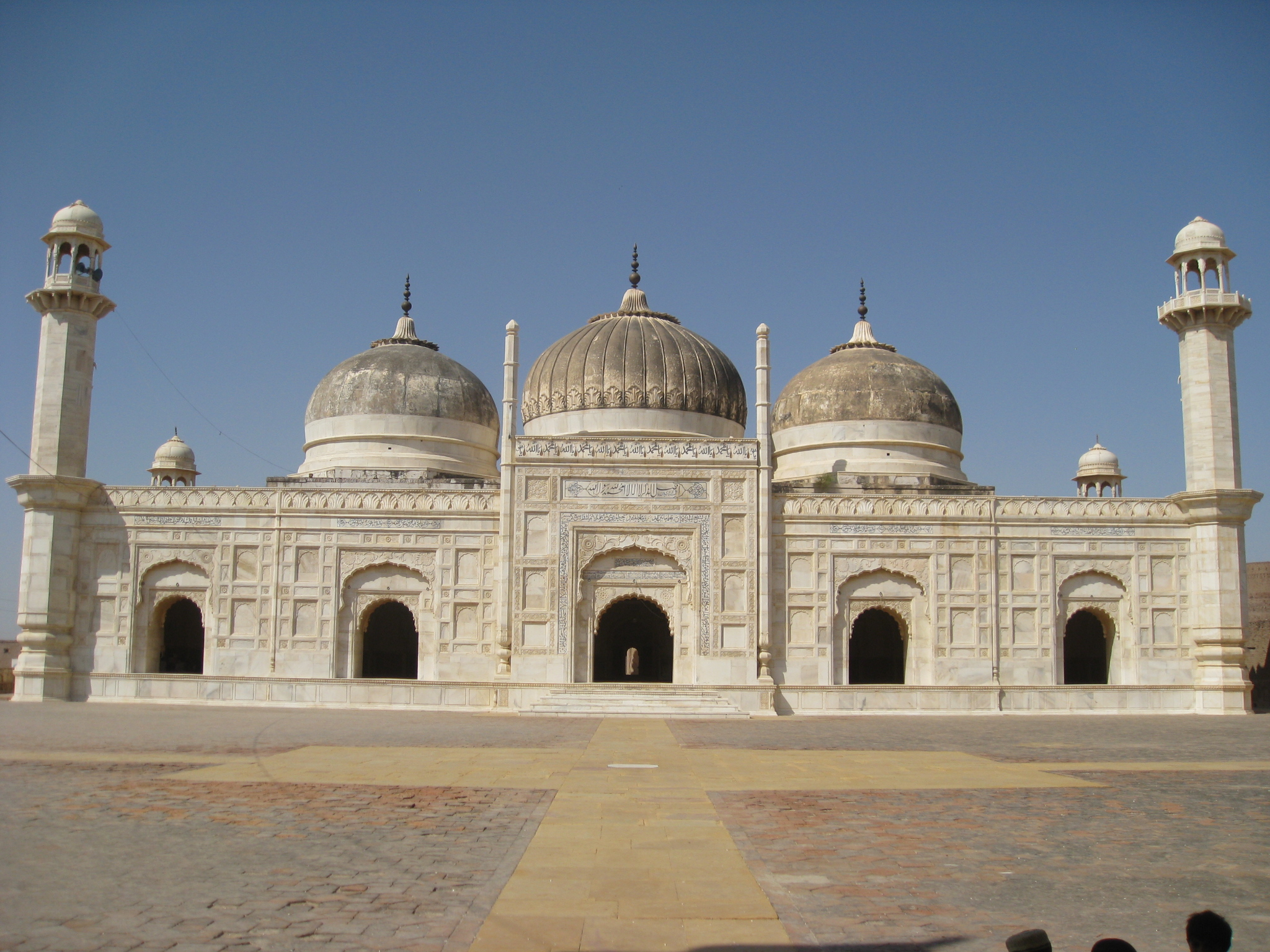 Abbasi Mosque This is a photo of a monument in Pakistan identified as the PB-U-3